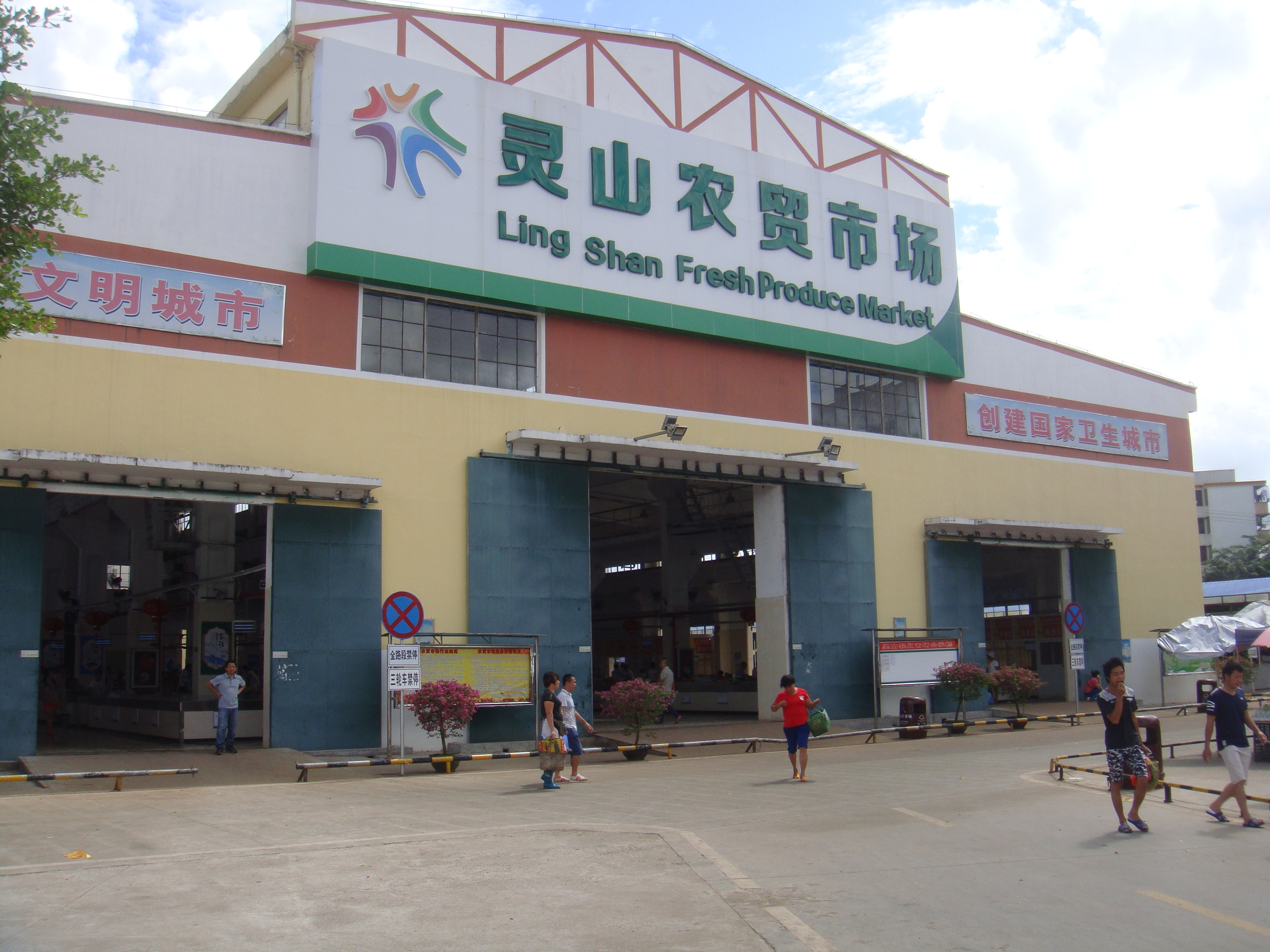 New market in central Lingshan in 2016 09, Haikou Prefecture, Hainan, China. This is after the area underwent infrastructure improvements as part of Hainan's "创建全国文明城市和创建国家卫生城市" or "Create and build a national civilized city and create and build a national sanitary city."